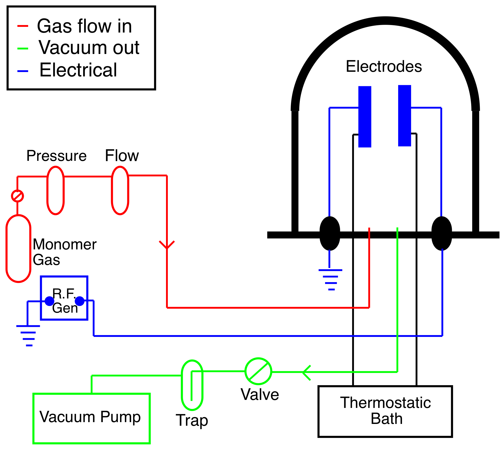 Apparatus of Plasma Polymerization with internal electrodes